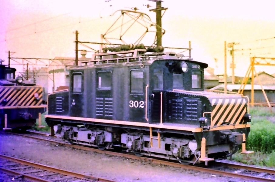 Meitetsu Class DeKi 300 electric locomotive DeKi 302 at Oe Station